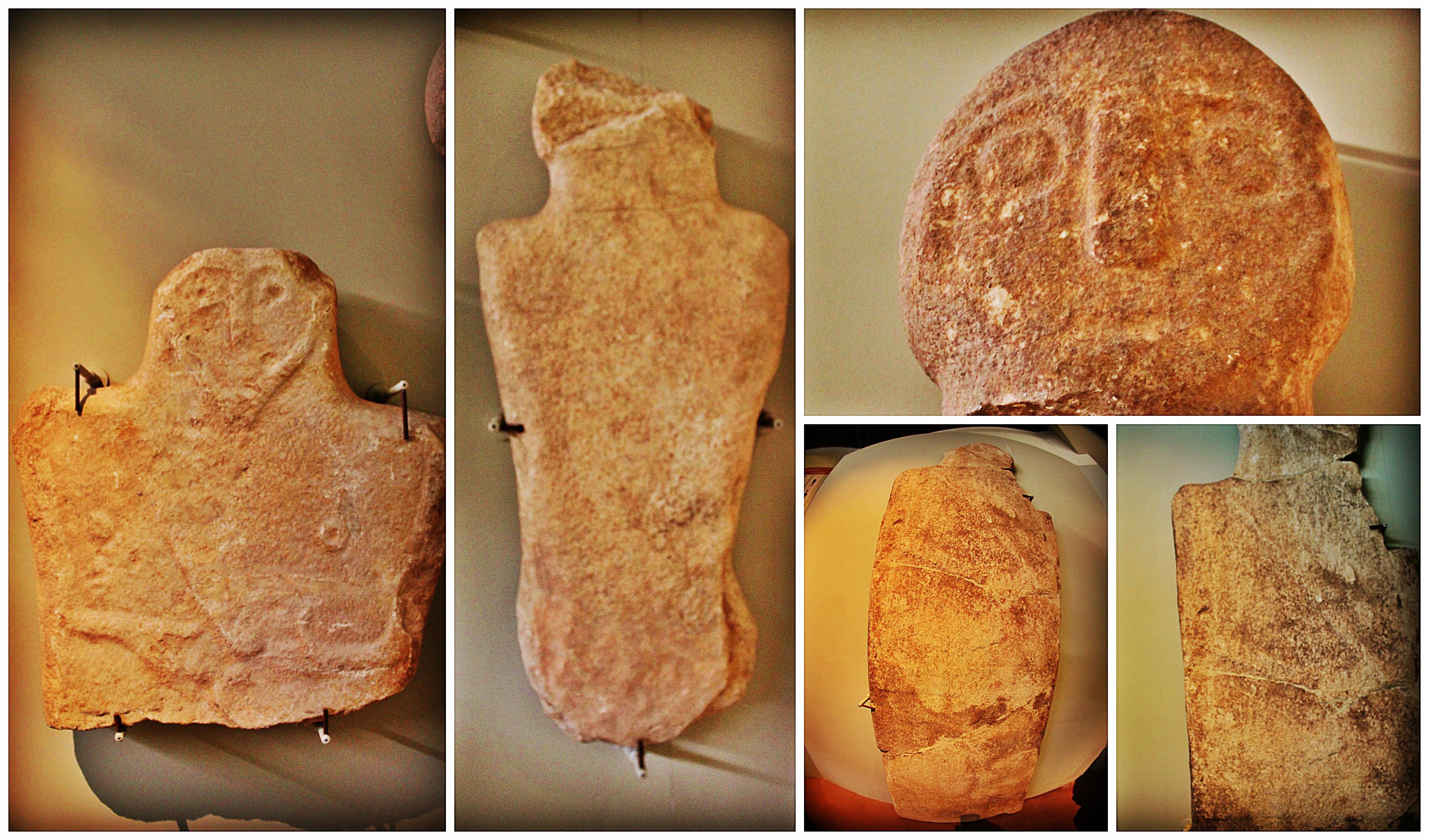 Skala sotiros stellae menhirs Thassos